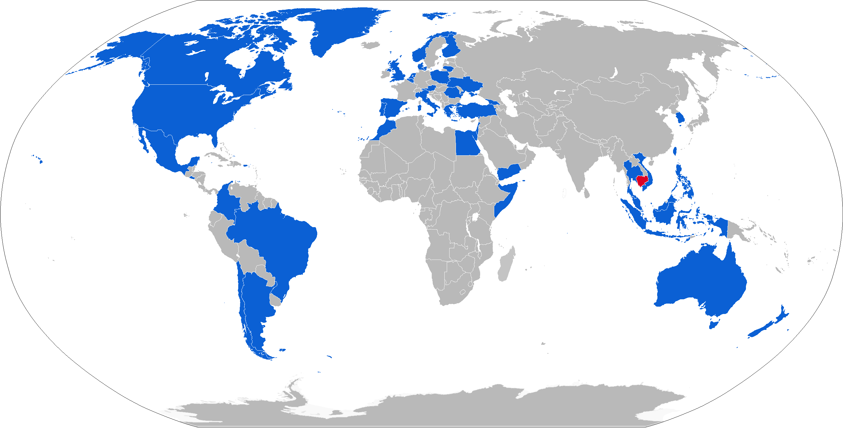 Map with M72 operators in blue with former operators in red